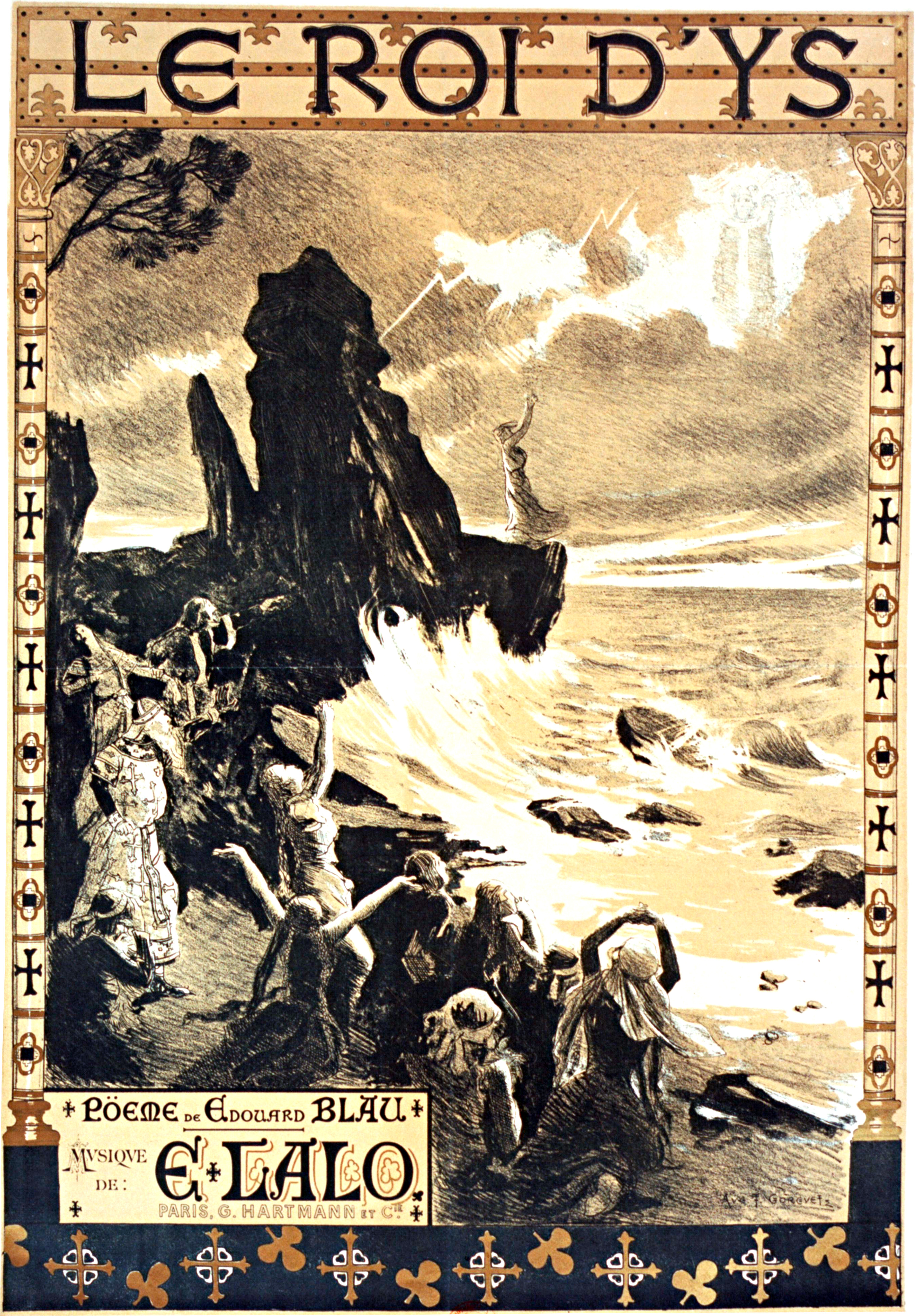 Édouard Lalo - Le roi d'Ys - poster of the first performance 1888 - Auguste François-Marie Gorguet